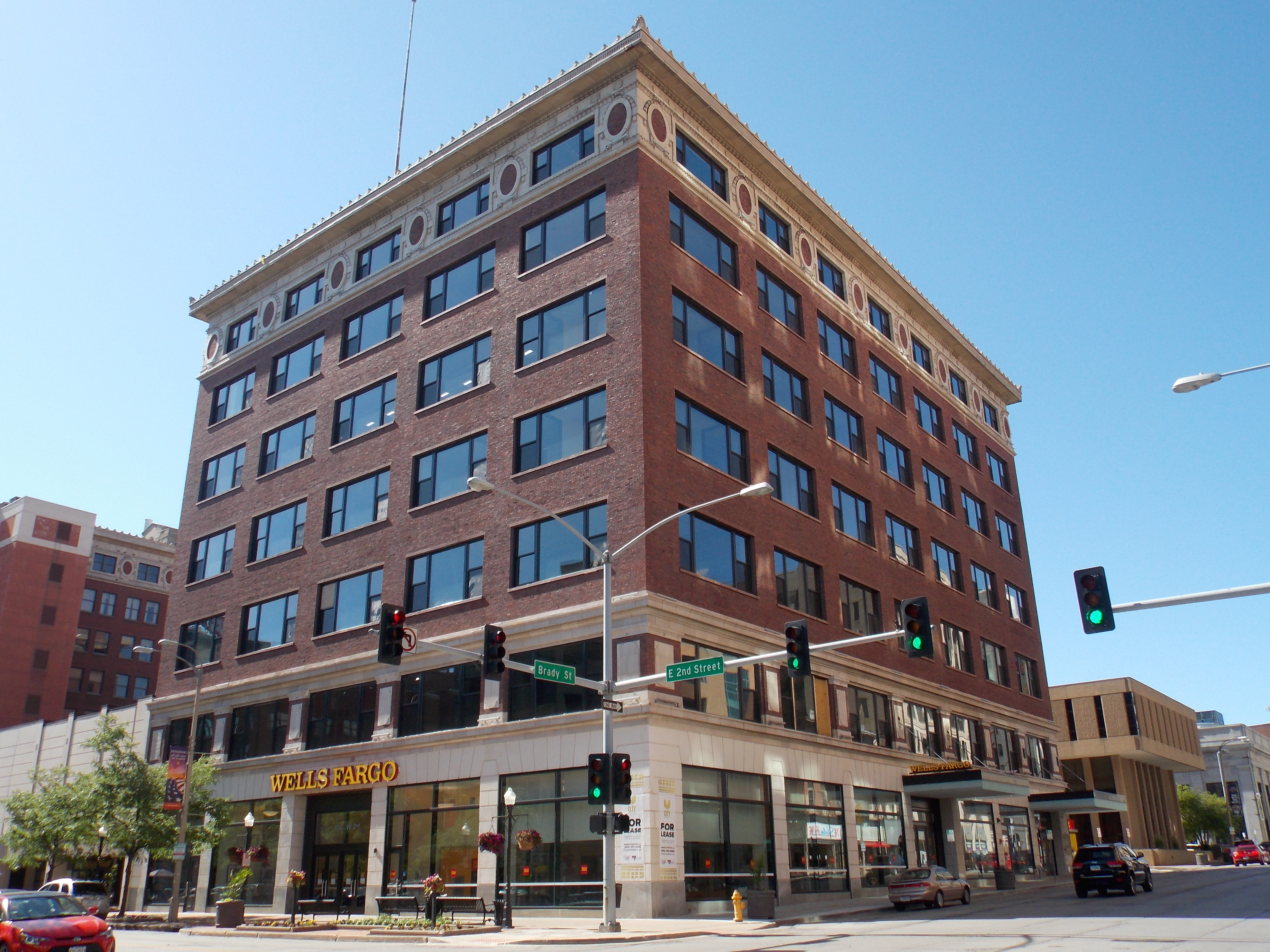 The Parker Building in Davenport, Iowa. It part of a development called City Square. It is listed on the National Register of Historic Places.